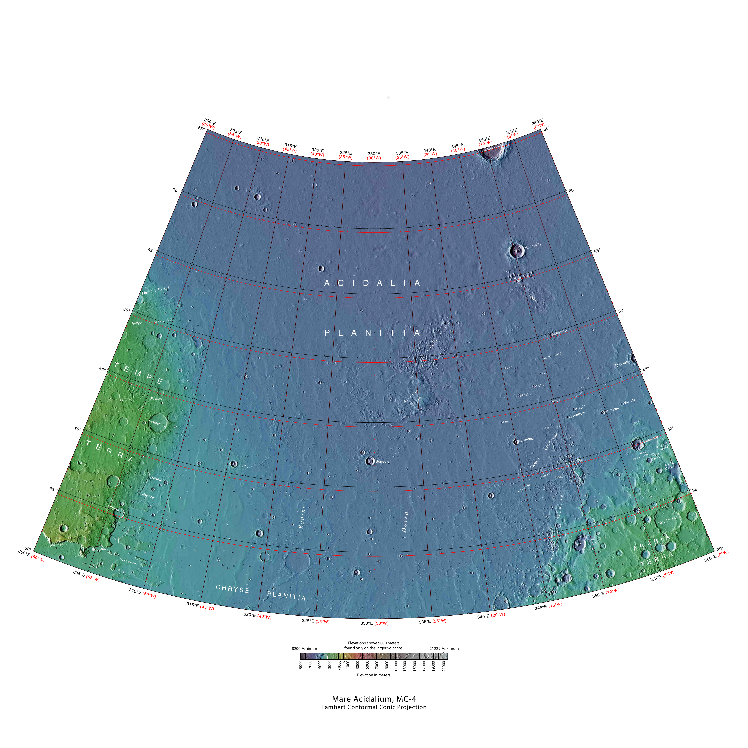 MOLA Topographic Map of Mare Acidalium Quadrangle (MC-4) on the planet Mars. NOTE: Converted the original PDF file to a PNG File (via GIMP v2.8.4 program) - and uploaded to Wikimedia Commons.